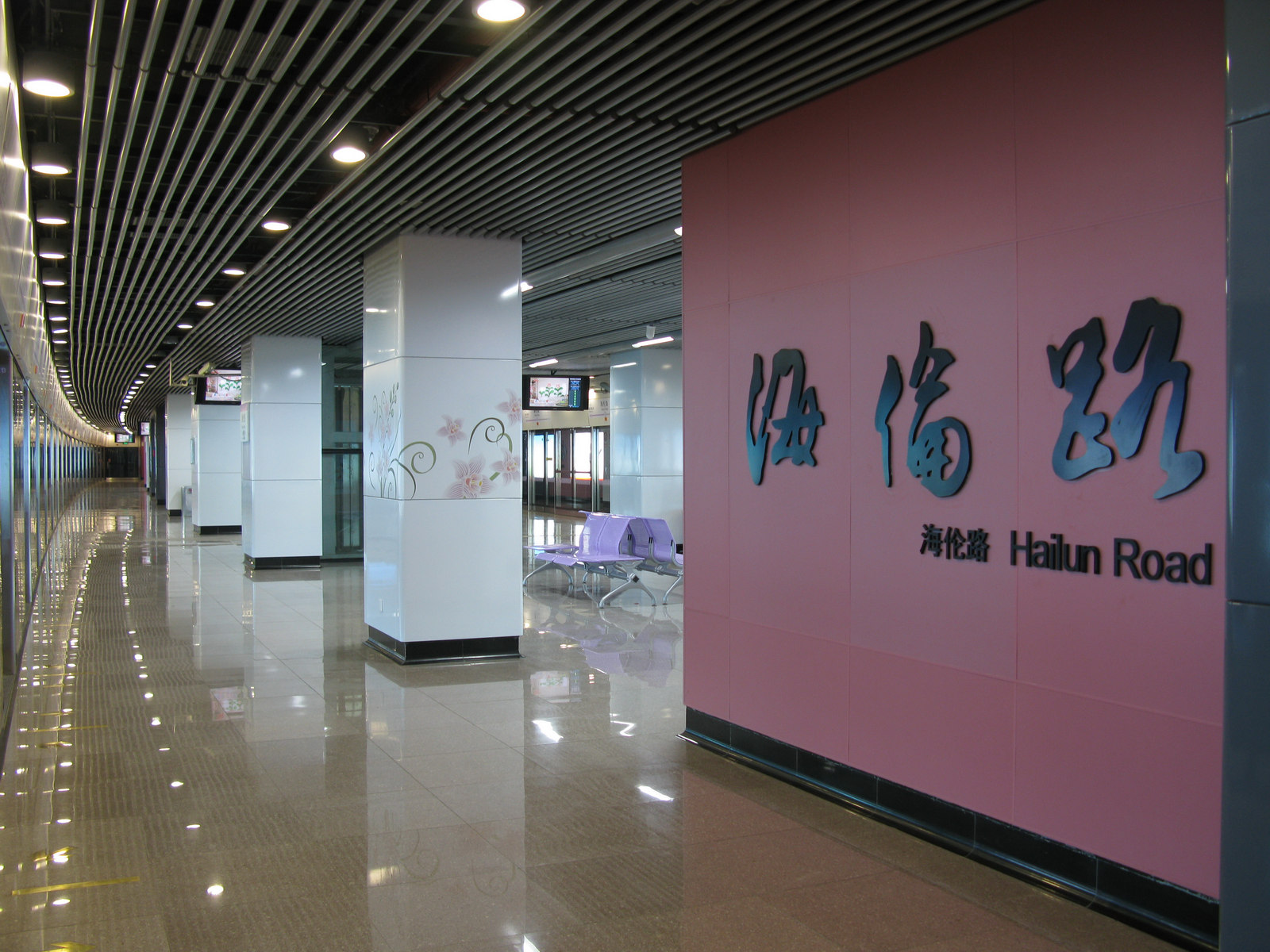 Line 10 Platform of Hailun Road Station, Shanghai Metro